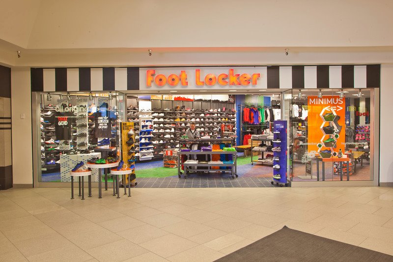 Footlocker